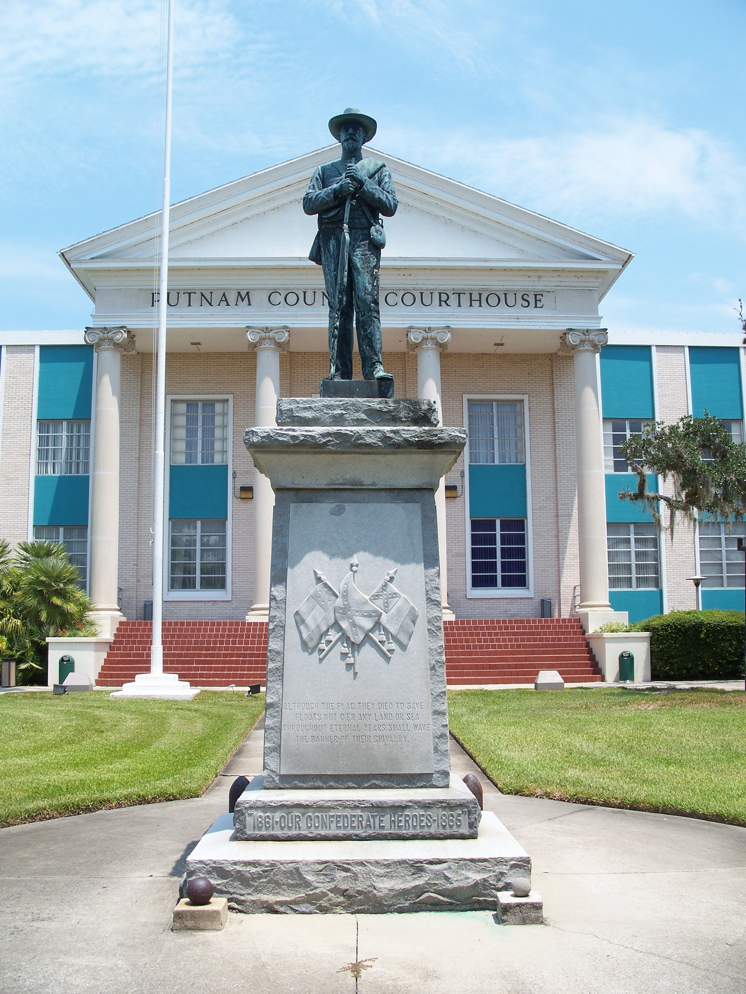 Statue commemorating Confederate soldiers, outside the Putnam County courthouse in Palatka, Florida